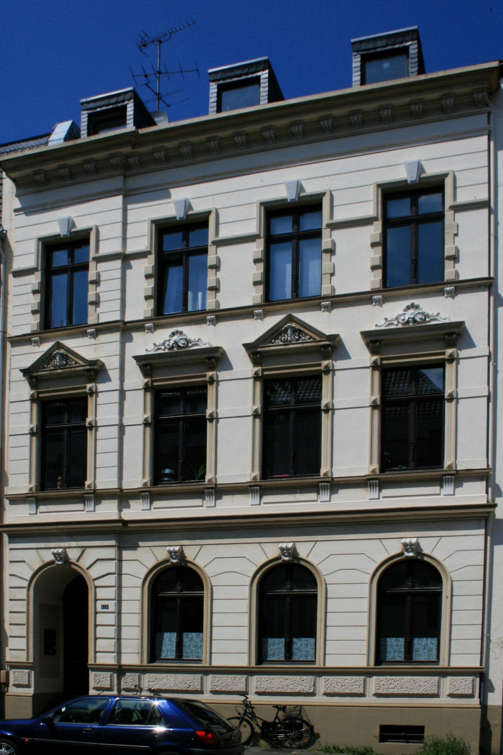 Cultural heritage monument No. K 079 in Mönchengladbach